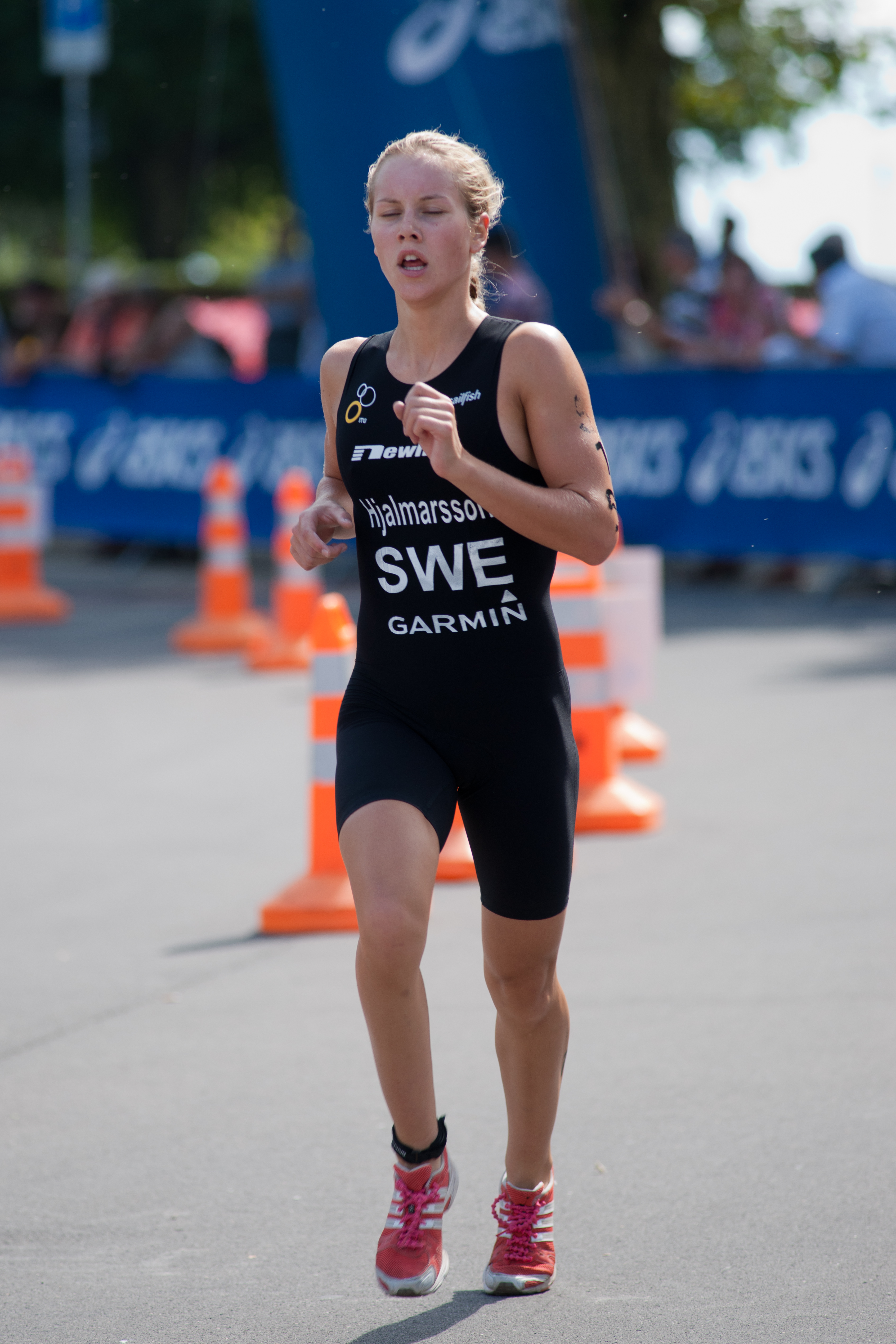 2010 ITU Sprint Distance Triathlon World Championships, Lausanne, Switzerland.